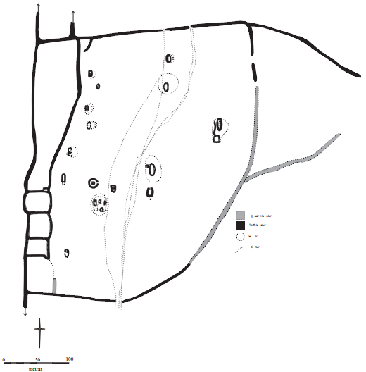 Ingiríðastaðir